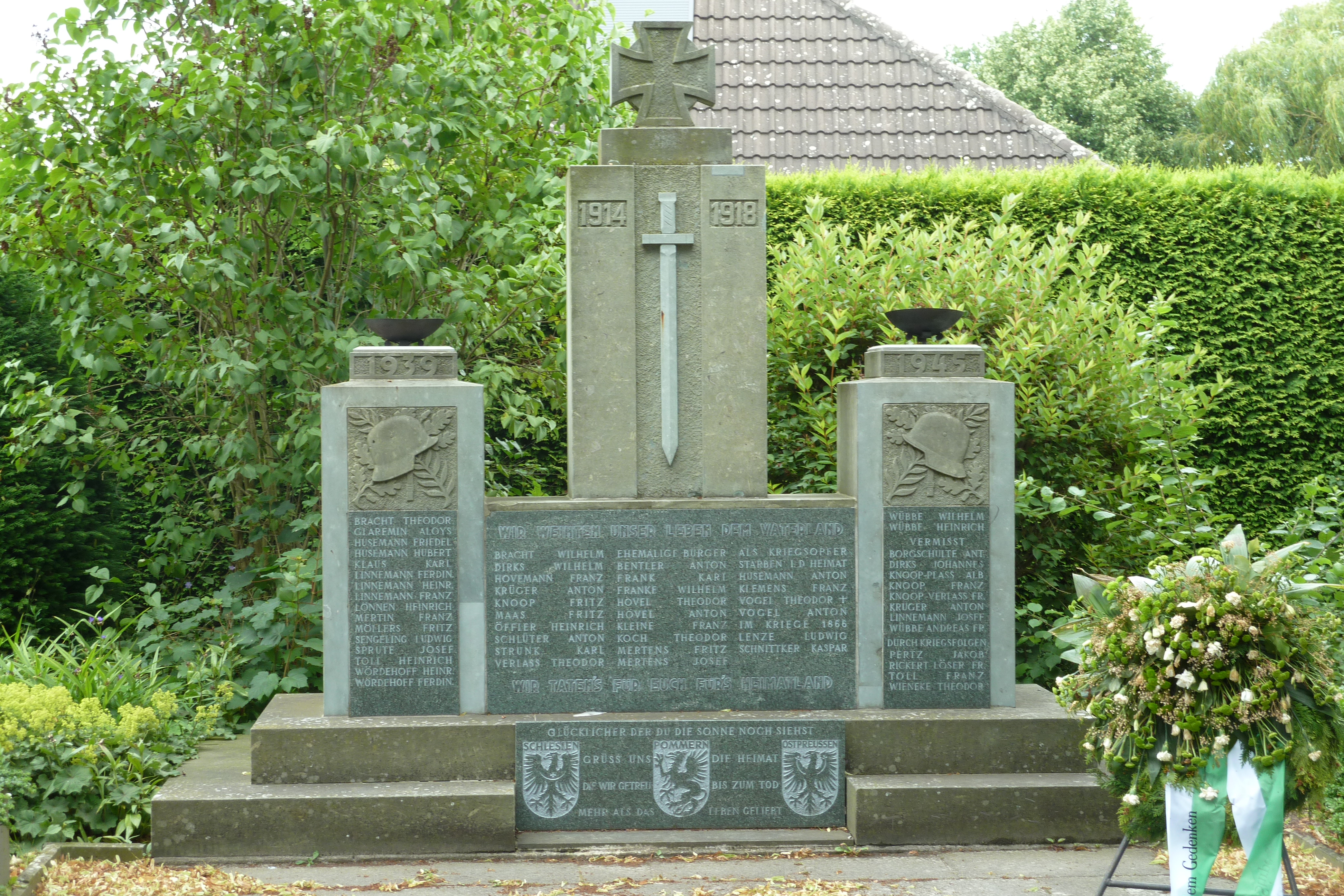 War memorial in Erwitte-Stirpe, Germany.